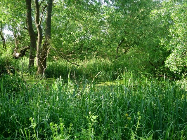 Fenland? A small damp overgrown area behind the buildings at Botany Bay, possibly similar to original fenland habitat.